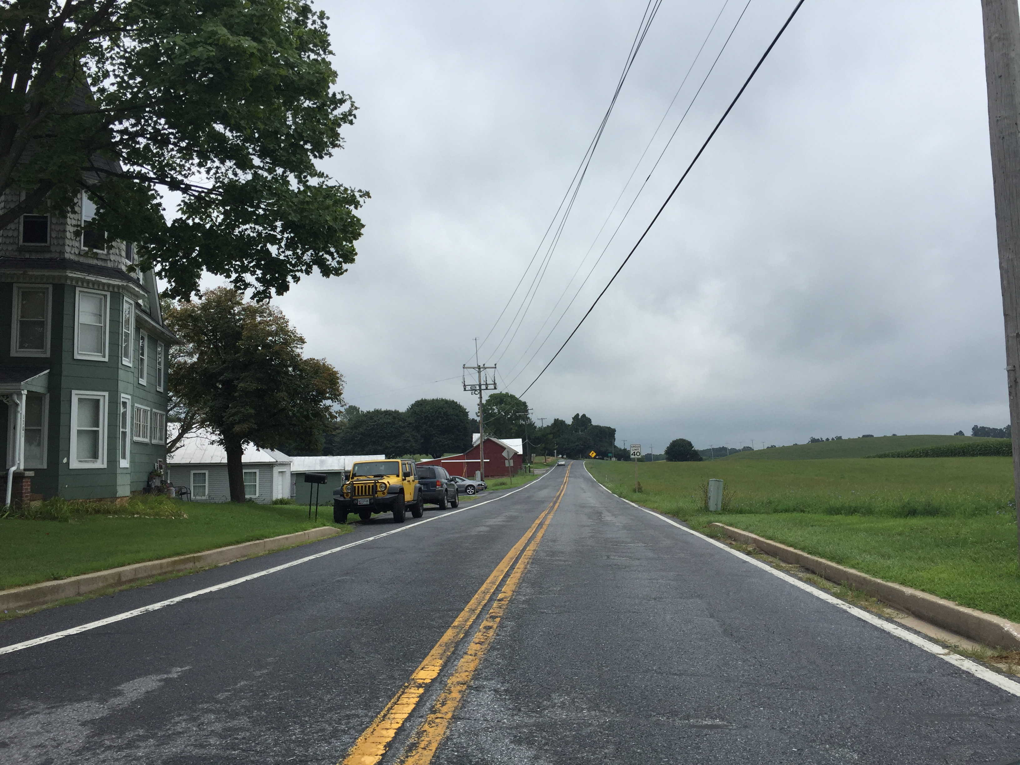 View south along Maryland State Route 854 (Old Washington Road) at Maryland State Route 32 (Sykesville Road) in Fenby, Carroll County, Maryland